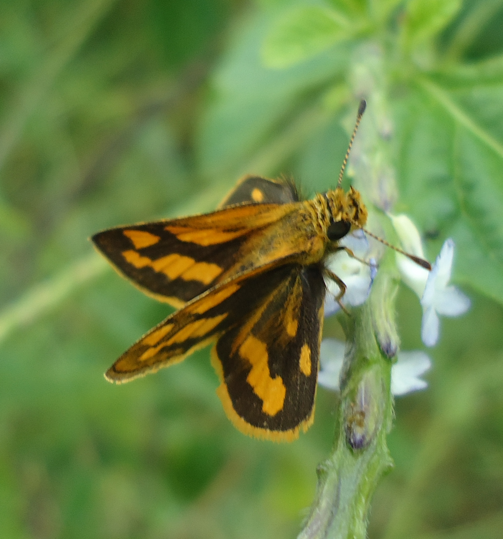 Potanthus niobe. A grass skipper from the Philippines